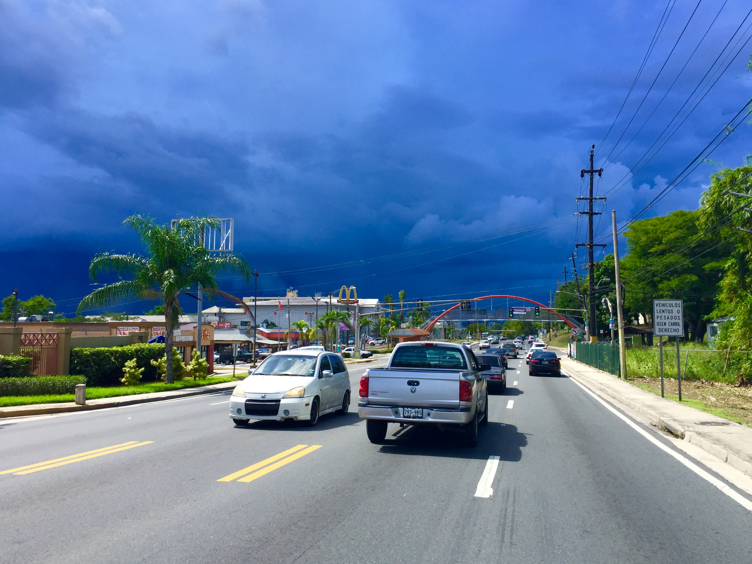 Highway PR-2 entering Bayamón